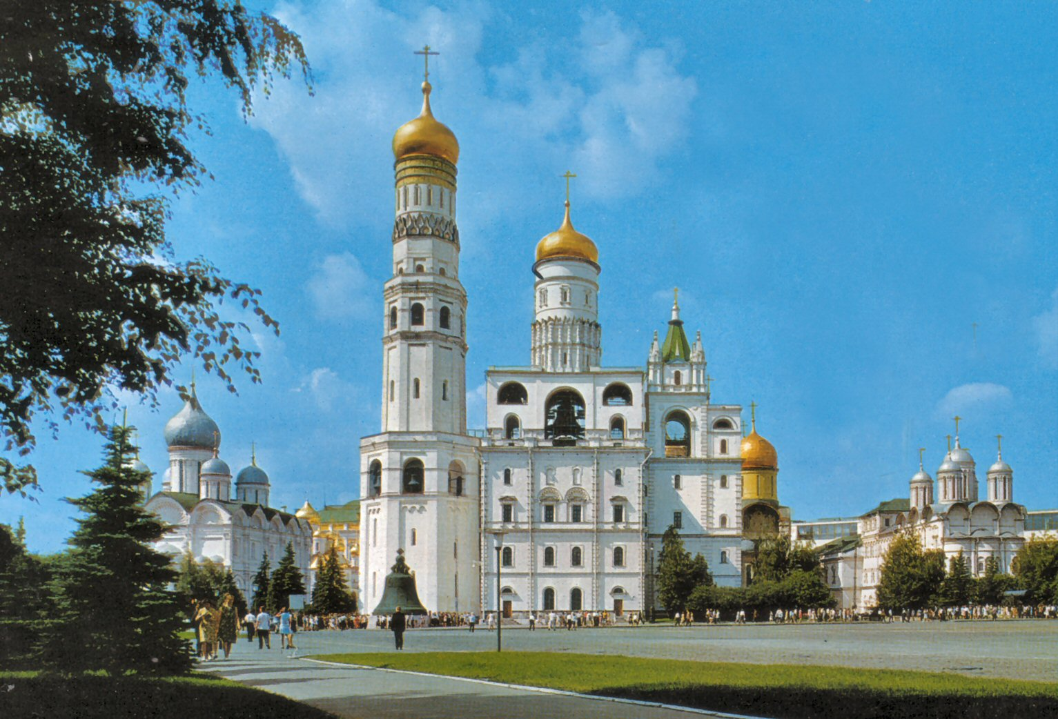 Inside the Kremlin, Moscow, 1973